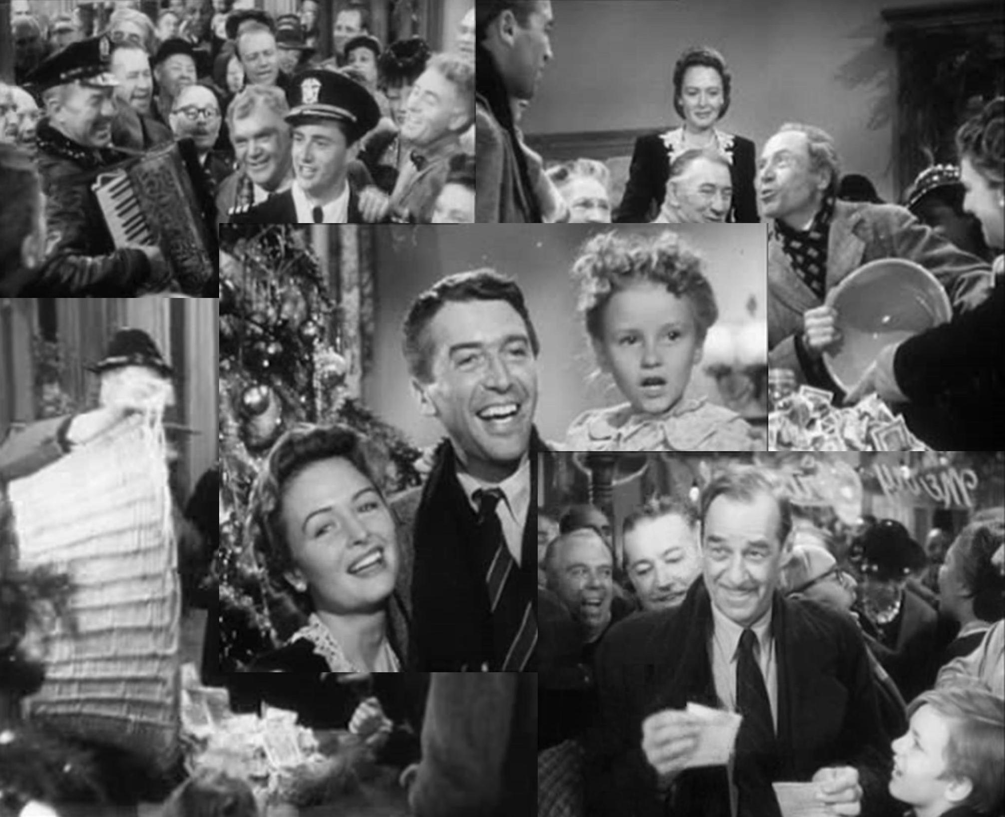 cadr finish of film I'ts Woderful Life Old finish